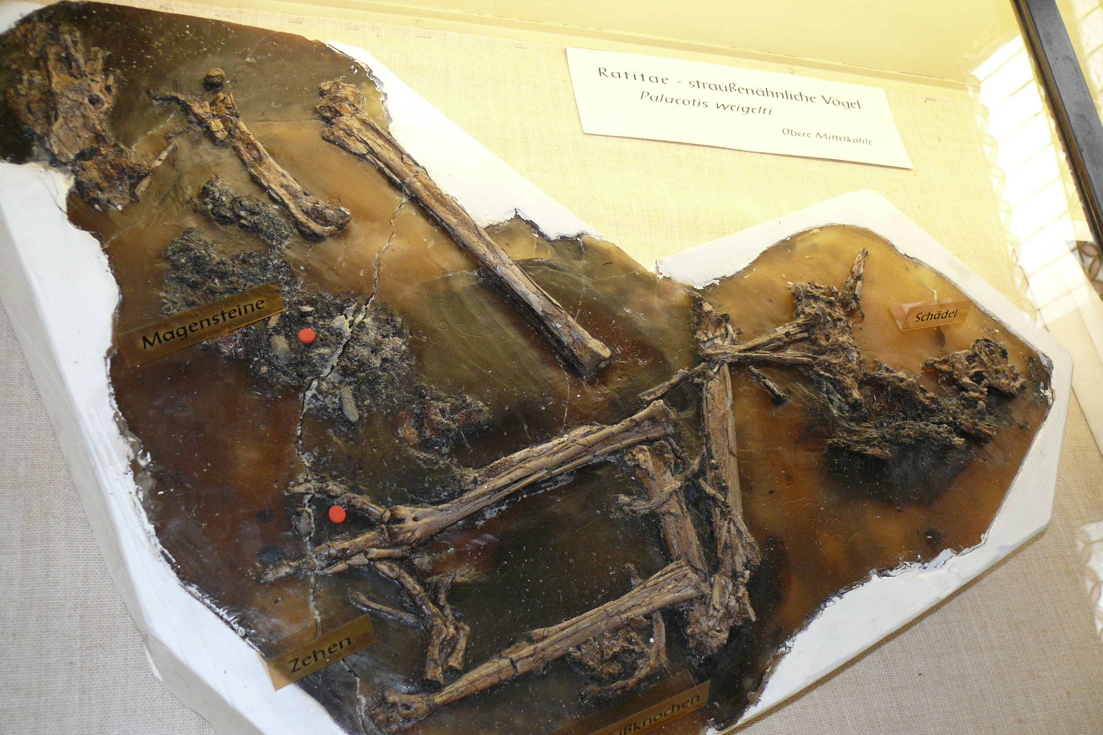 Palaeotis weigelti LAMBRECHT 1928 (specimen no. GMH 4362), an extinct ostrich relative from the Eocene deposits of the Geiseltal fossil site, Saxony Anhalt, Central Germany.